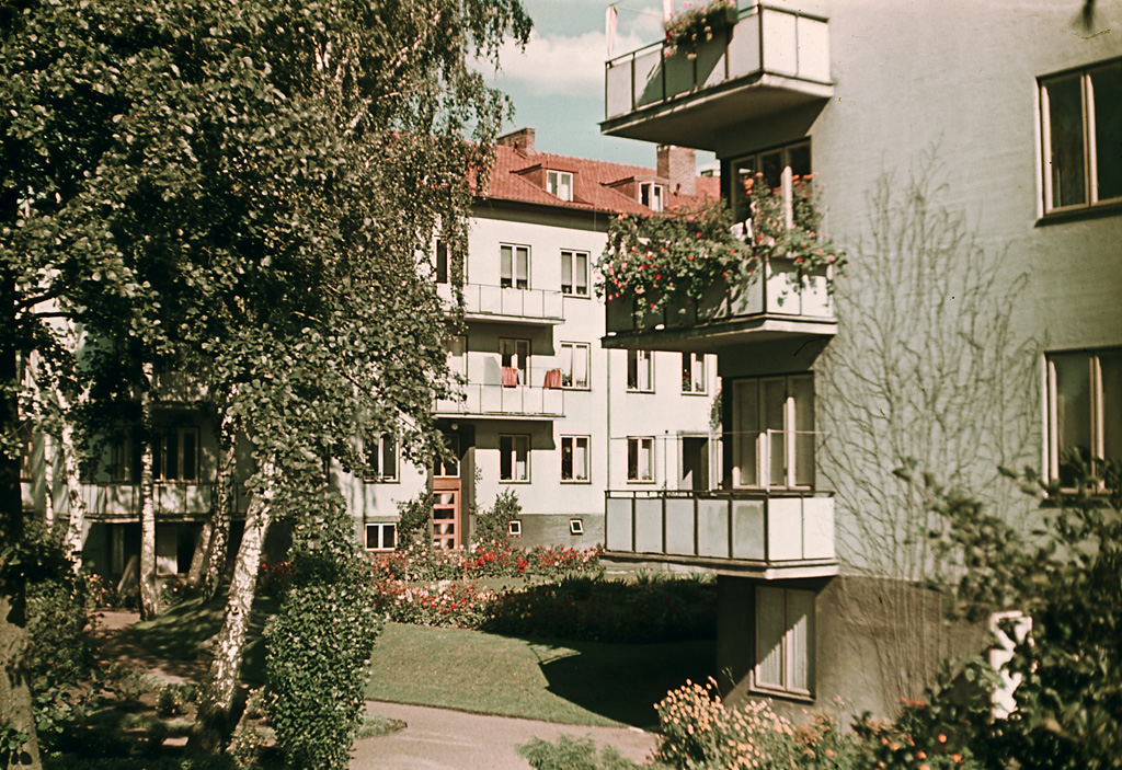 The so called "Green house" at 3, Strandgatan street in Ängelholm.